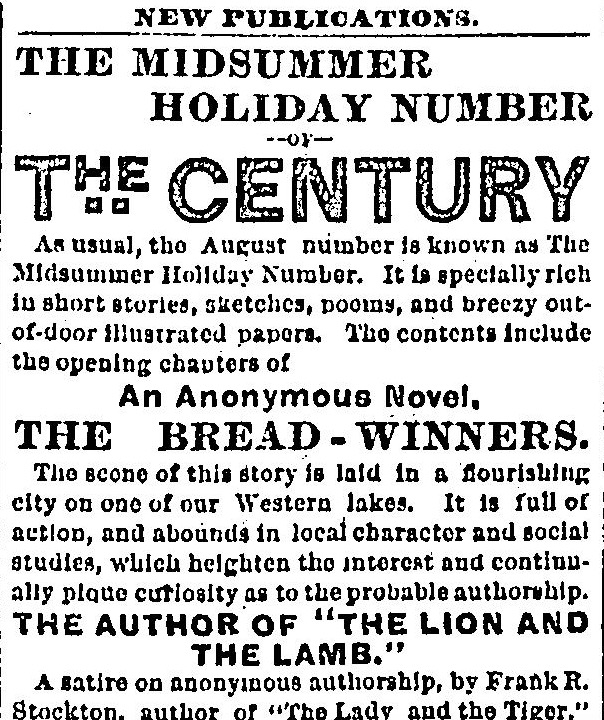 Newspaper advertisement (partial) trumpeting the upcoming serialization of John Hay's anonymous novel, The Bread-Winners